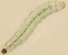 Stainton’s Natural History of the Tineina (1855–1873): Caloptilia syringella